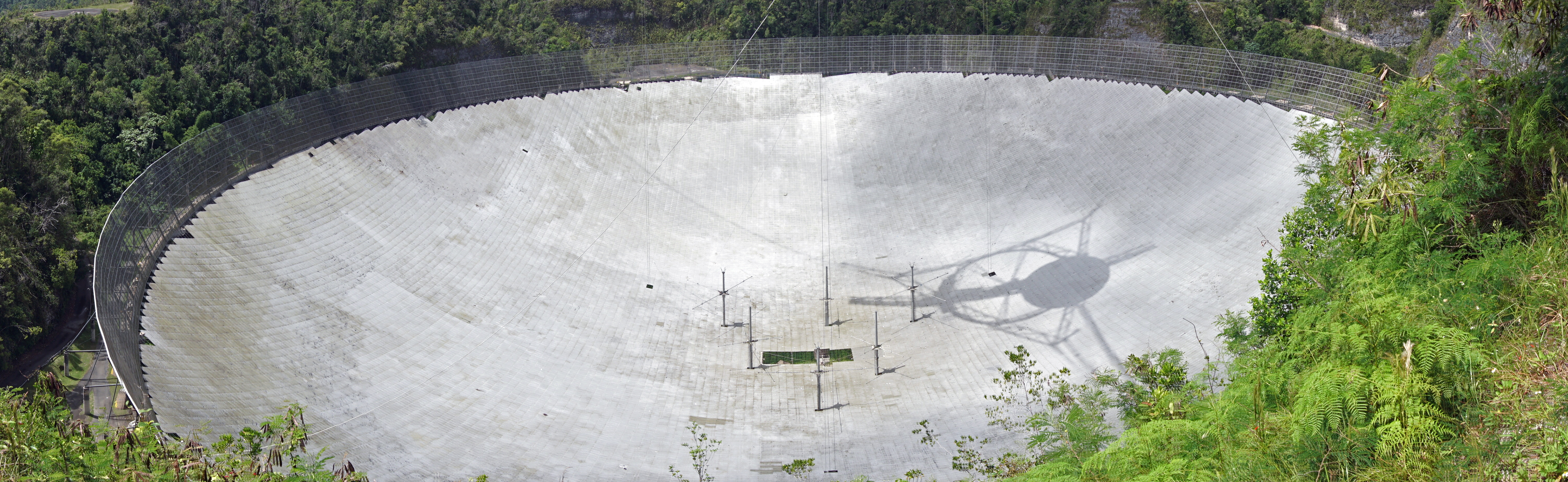 Panoramic view of the Arecibo radio telescope primary dish, Arecibo Observatory, Puerto Rico.